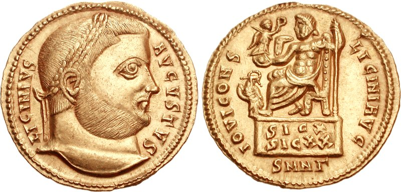 Licinius I. AD 308-324. AV Solidus (5.34 g, 12h). Decennalia issue. Nicomedia mint; 3rd officina. Struck AD 317-318. LICINIVS AVGVSTVS, laureate head right IOVI CONS LICINI AVG, Jupiter Optimus Maximus enthroned left on basis inscribed SIC X/SIC XX, holding Victory standing right on globe in outstretched right hand and scepter in left; at feet, eagle standing left, head right, with wings folded, holding wreath in beak; SMNΓ. RIC VII 20 corr. (obverse legend); Depeyrot 28 corr. (Jupiter seated facing); Calicó 5100. Superb EF, a couple minor edge marks.